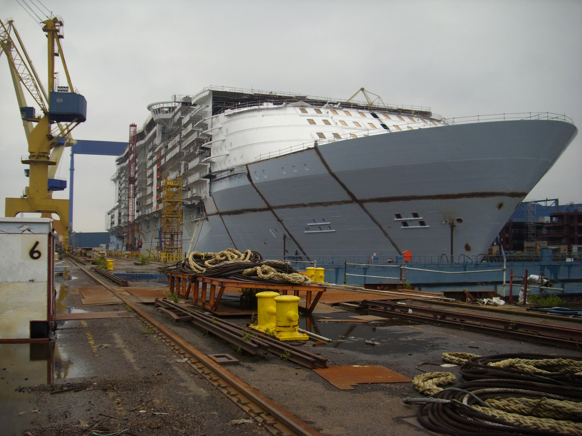 MS Oasis of the Seas, under construction during July 2008.